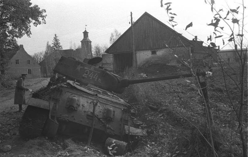 Information added by Wikimedia users.